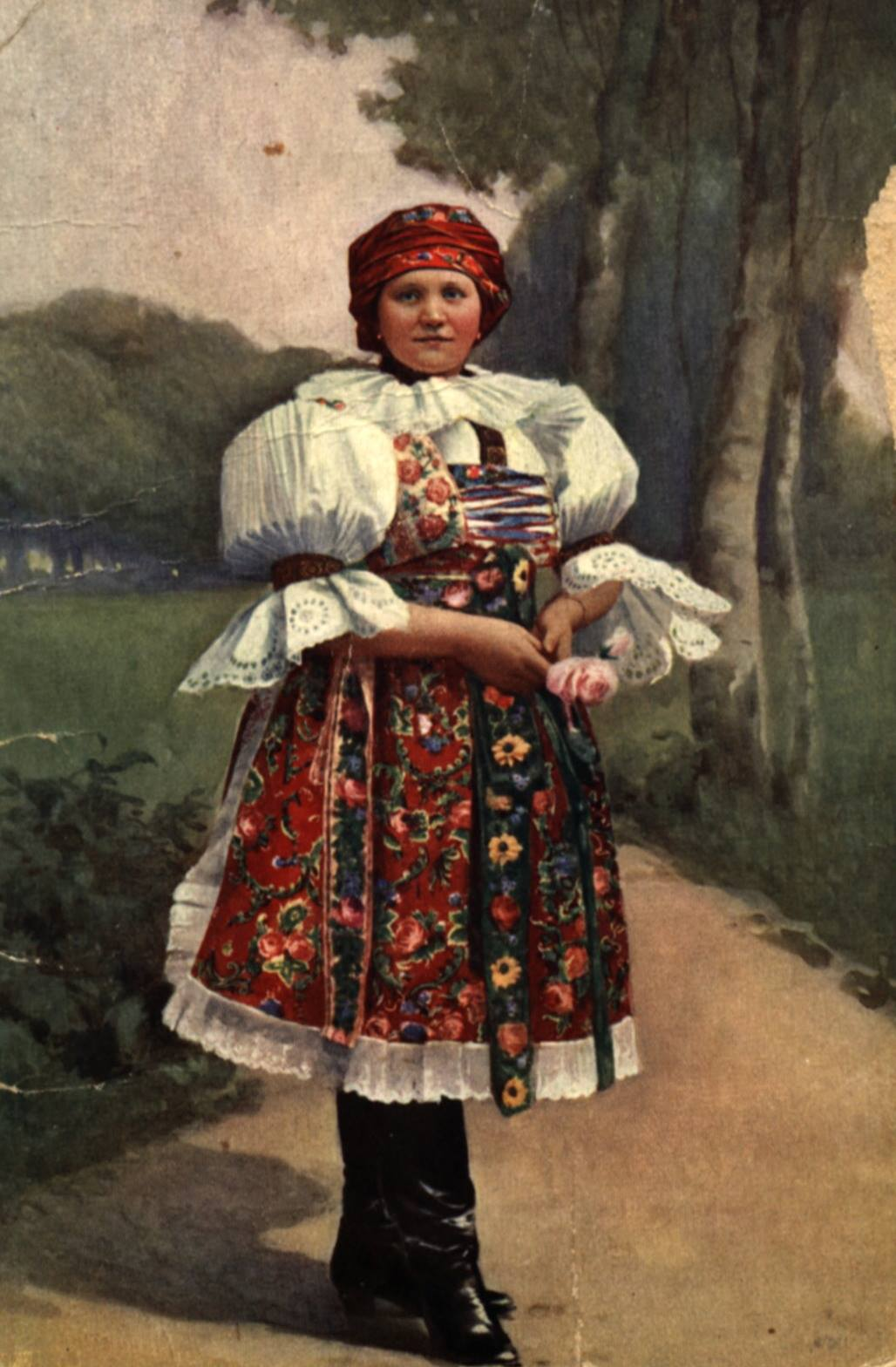 Miroslava Frištenská, born Eldnerová, wife of wrestler Gustav Frištenský, in the national costume of the Haná region.